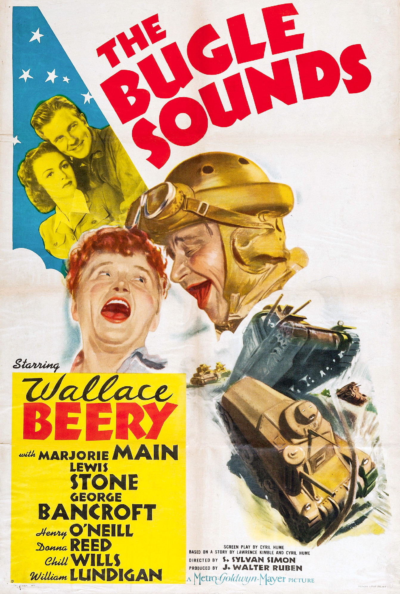 Poster for the 1942 film The Bugle Sounds. The item has no copyright marks on it as can be seen at links and original upload.Ledt if "D" (poster version D) Litho in USA 6814. At bottom right is Tooker Litho Co. NY-they printed the poster.